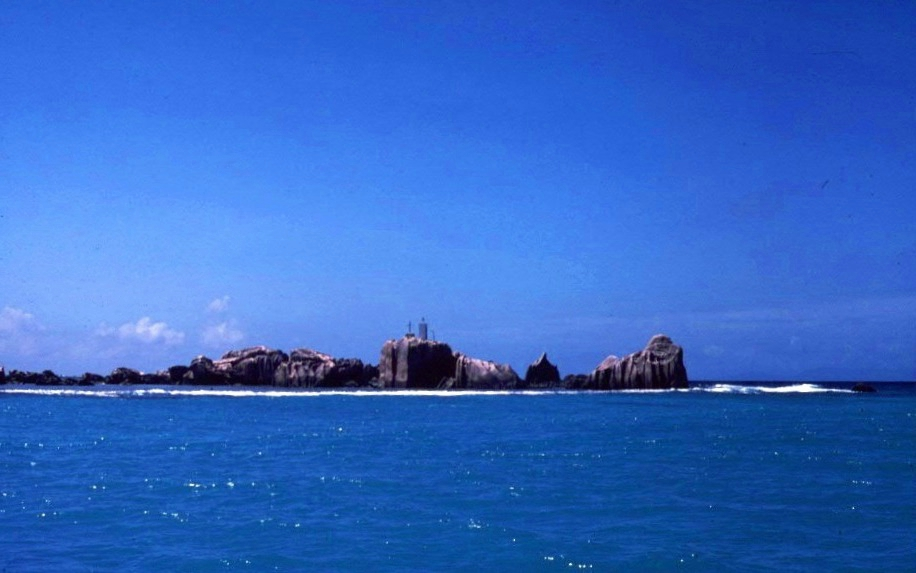 La Digue Lighthouse, Seychelles.